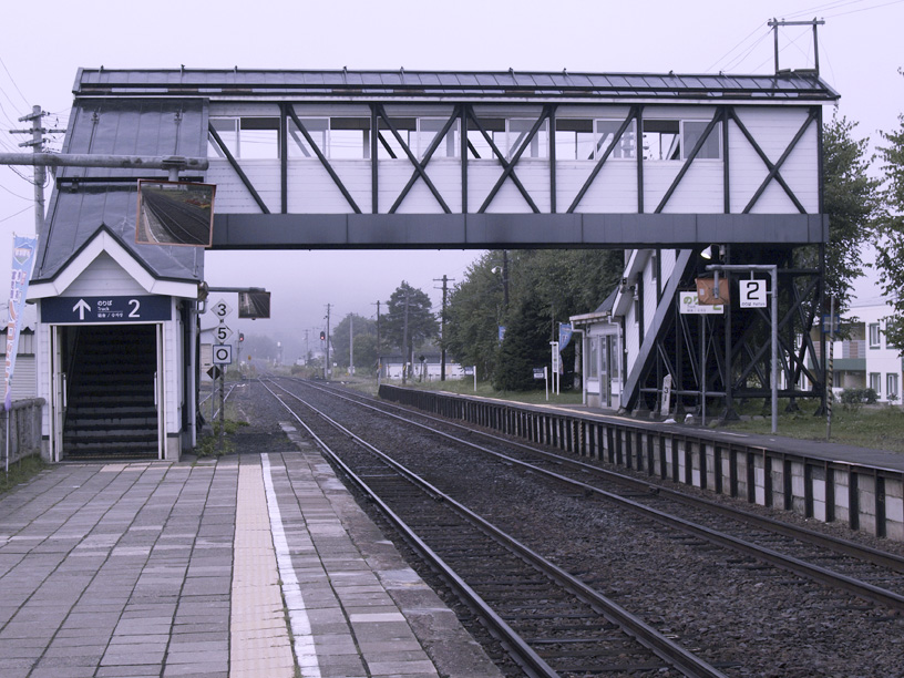 Biei Station in Biei, Hokkaidō, Japan.